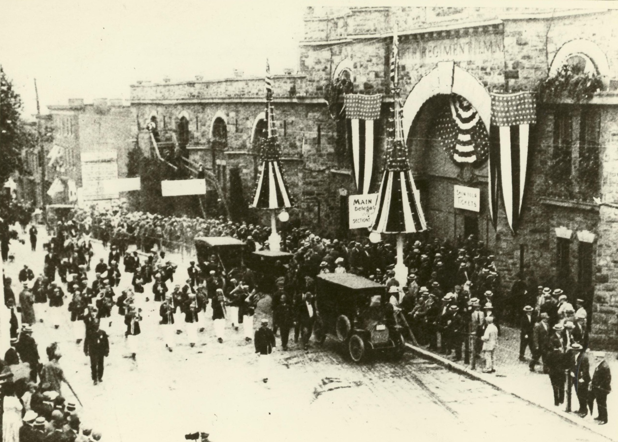 Local Accession Number: 131-A Description: Crowd outside the convention hall in Baltimore. Photographer: Leslie's Illustrated Weekly Source: Research Library, 20th Century Fox Size: 8x10 Medium: Print, Black and White Date: 1912